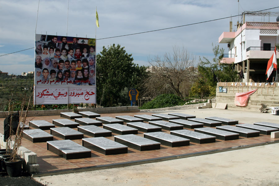 Graves of the 28 people killed by the airstrikes on Qana. Memorial to the 28 people killed by the Qana Airstrike.